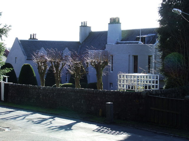 Windy Hill Designed by Charles Rennie Mackintosh 1899-1901. See also 351012 and 842547.